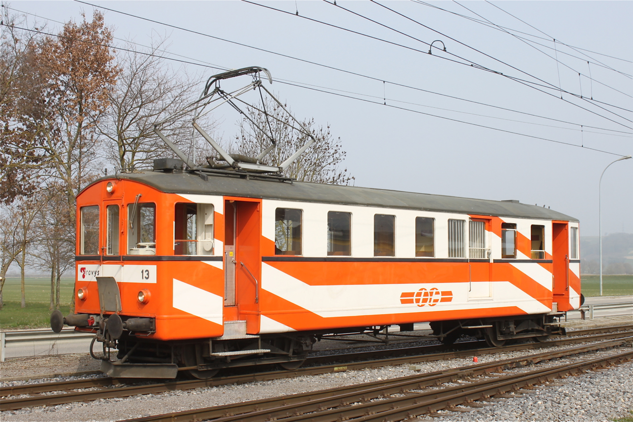 Electric railcar BDe 4/4 13 of Travys (Orbe-Chavornay Railway) at Les Granges (Orbe).